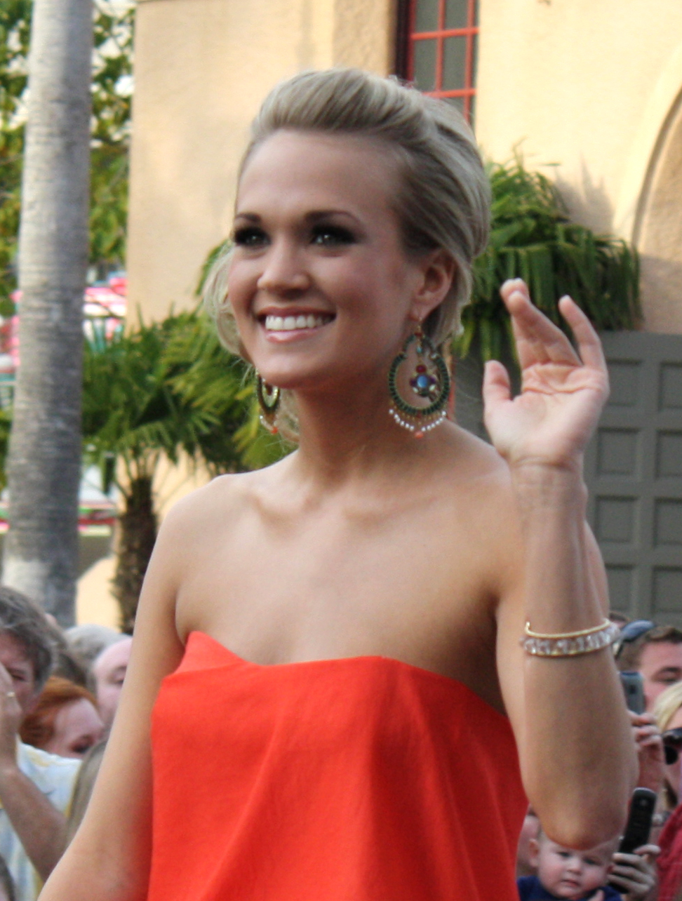 Carrie Underwood at the American Idol Experience premiere. Hollywood Studios, Florida.